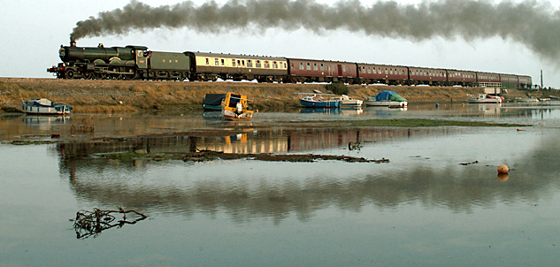 Cockwood harbour and railway Line at grid reference SX977807 near Cockwood, Devon, England. This is the main west of England rail route for Torbay and Plymouth. At this point, it is on an embankment which separates the sea from the harbour. Boats gain access to this sheltered area via a small bridge passing under the railway. Needless to say, yachts and large vessels cannot gain access due to the height restriction! The train is one of many main line chartered specials that operate to the West Country throughout the year. Definitely Castle Class, probably 5051.